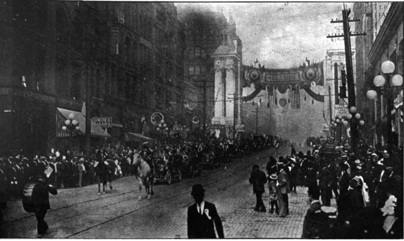 Original caption: "The parade on Japanese Day, as it appeared coming down Second Avenue, Seattle, passing through the Welcome Arch erected by the city for the Exposition". "The Exposition" would be the Alaska-Yukon-Pacific Exposition.